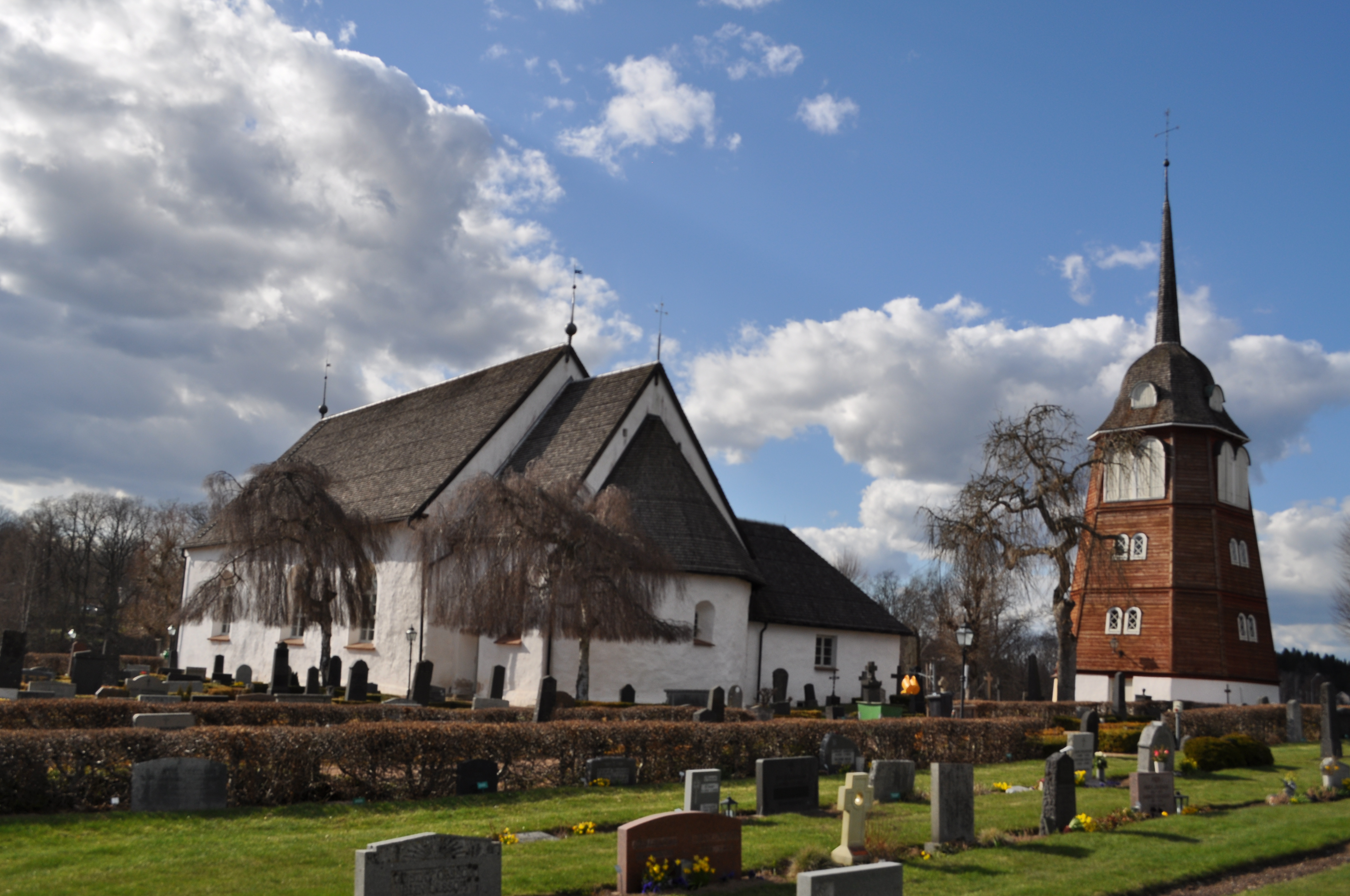 Fridlevstads kyrka-Church